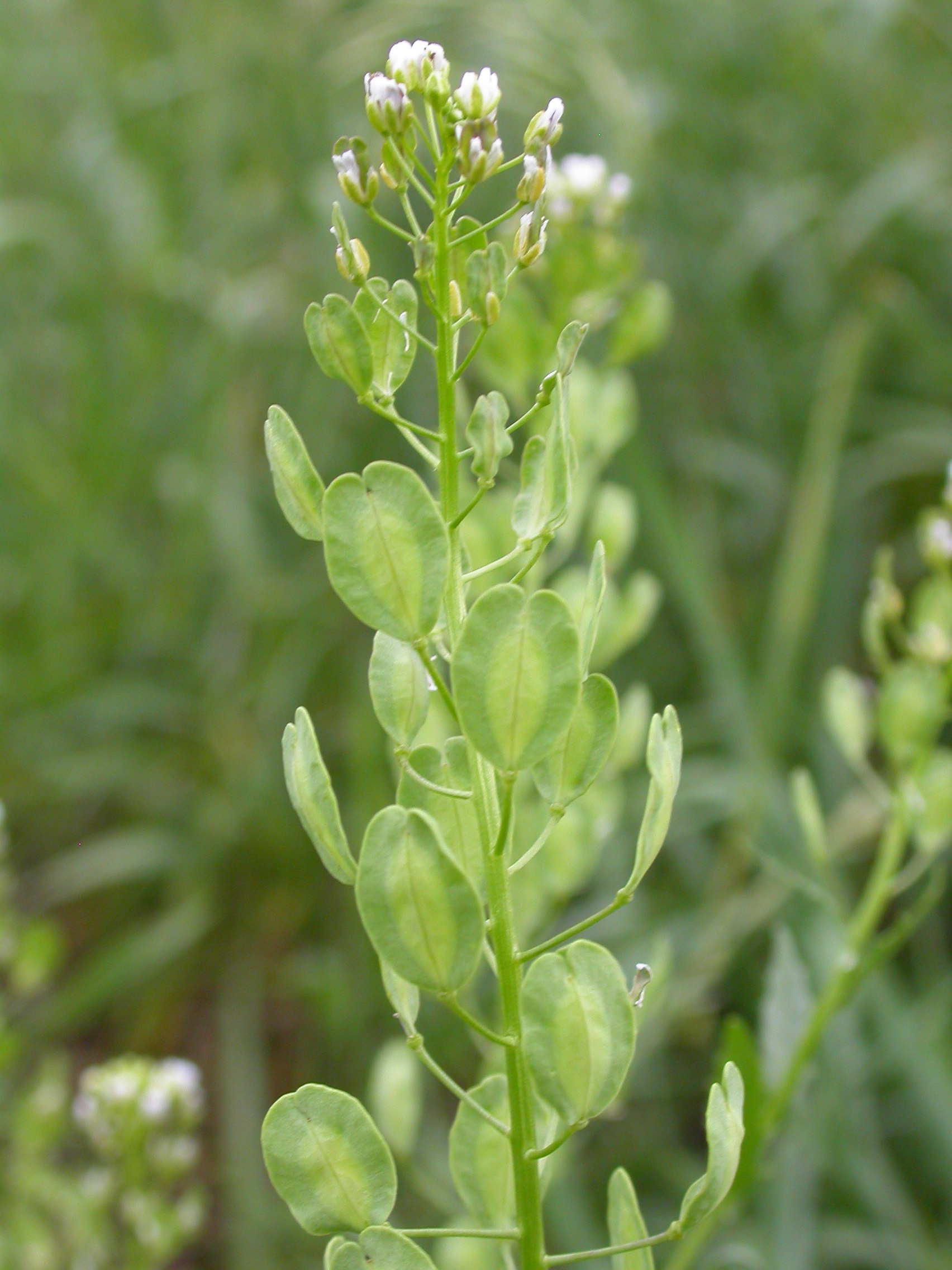 The fruits of Thlaspi are "compressed" perpendicular to the septum, rendering the midvein similar to that of field pepperweed (Lepidium).